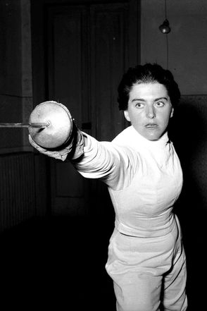 Irene Camber at her home in Italy in 1960s